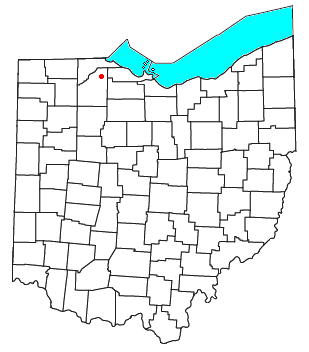 Locator map of the unincorporated community of Stony Ridge in Wood County, Ohio, United States.